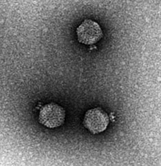 P22 is genetically a member of the lambda-like bacteriophage family, and morphologically a member of the Podoviridae. This electron micrograph is by Sherwood Casjens and Elaine Lenk. Sherwood Casjens granted permission for the use of the image at . Crenim (talk) 16:36, 8 September 2011 (UTC)